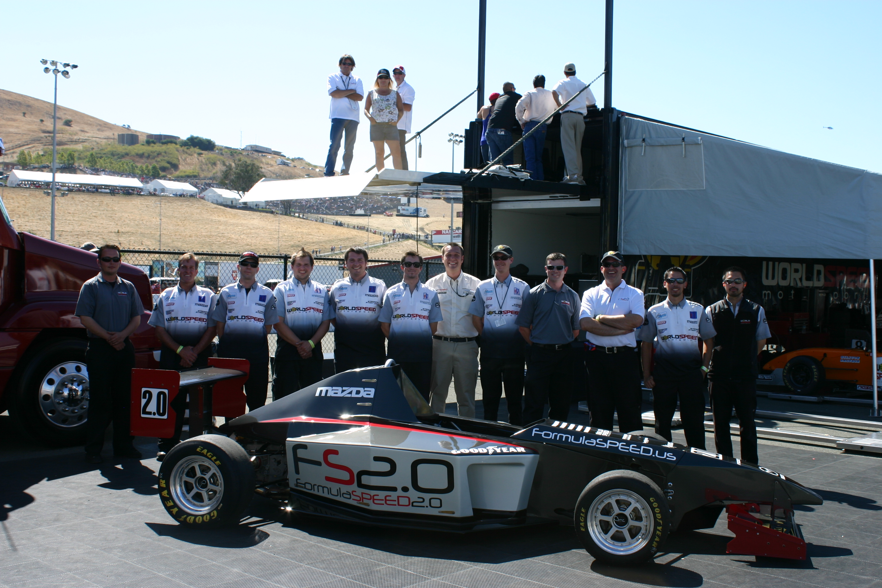 Debut of the new for 2011 FormulaSPEED2.0 with the design team